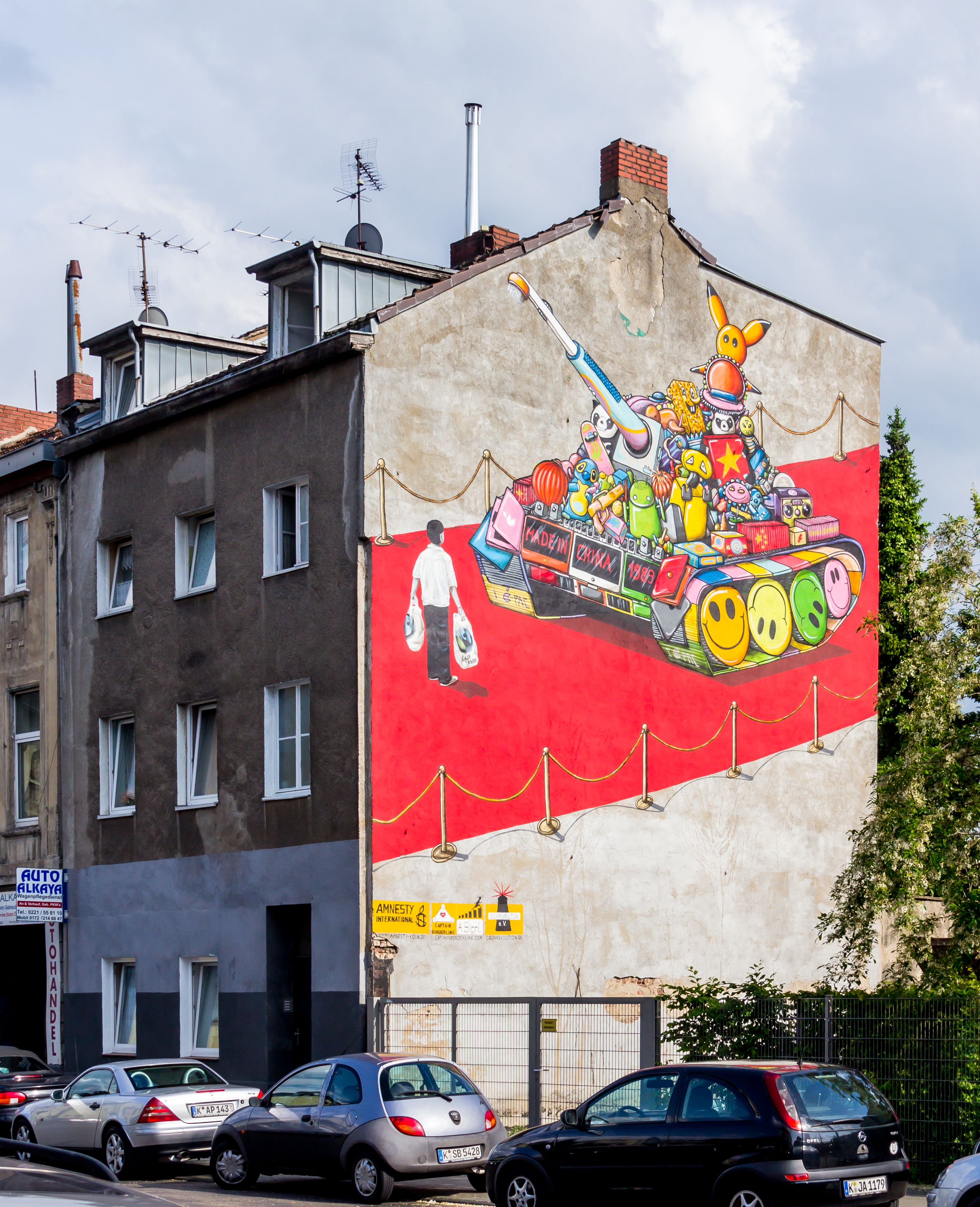 In a cooperation with amnesty international cologne and colorrevoluion e.V. to point on the human rights violations in China. In Remember of the Tiananmen Masaker from 1989